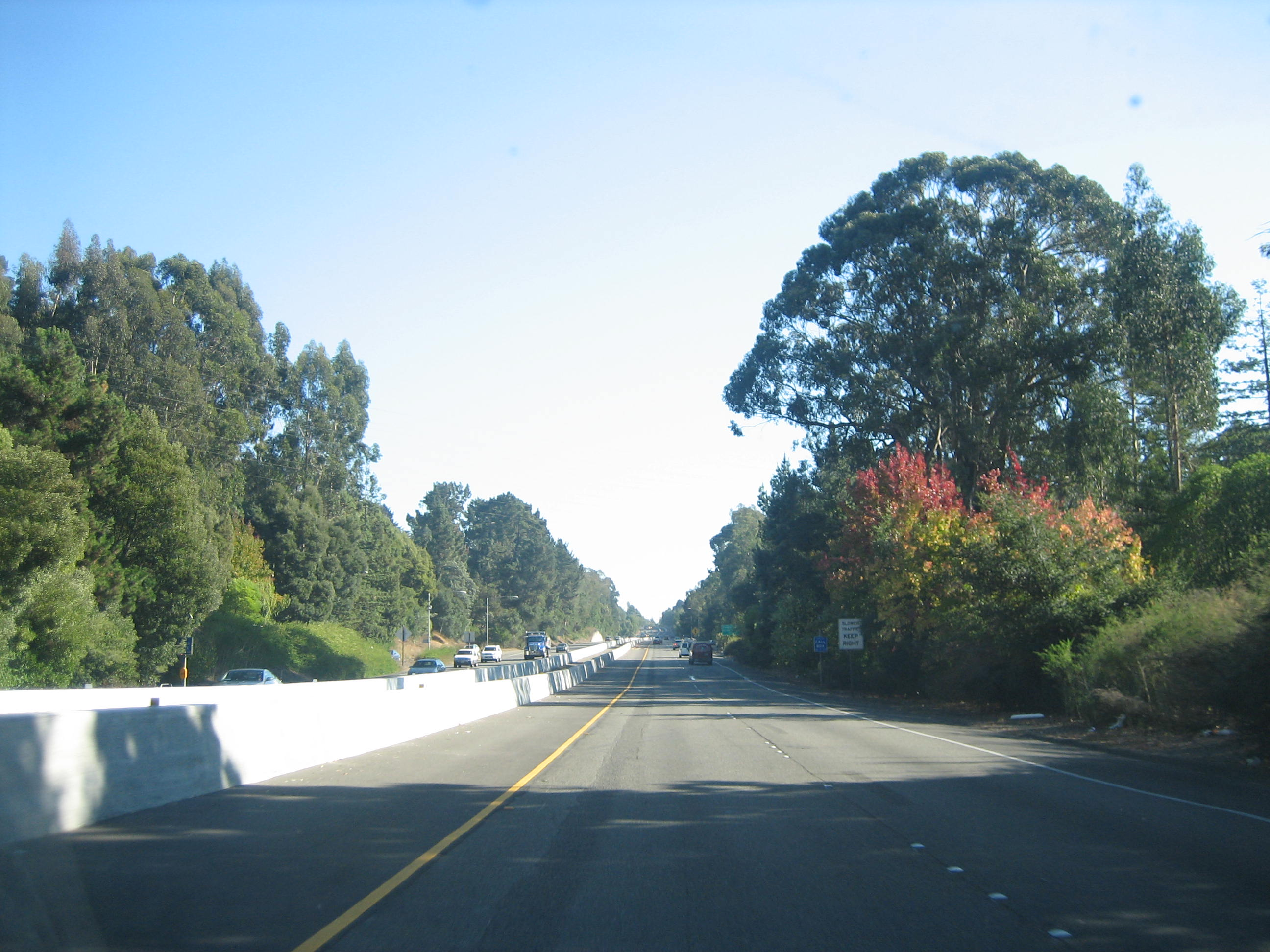 uploading image for State Route 13